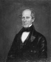 Portrait of Senator Amos Nourse of Maine